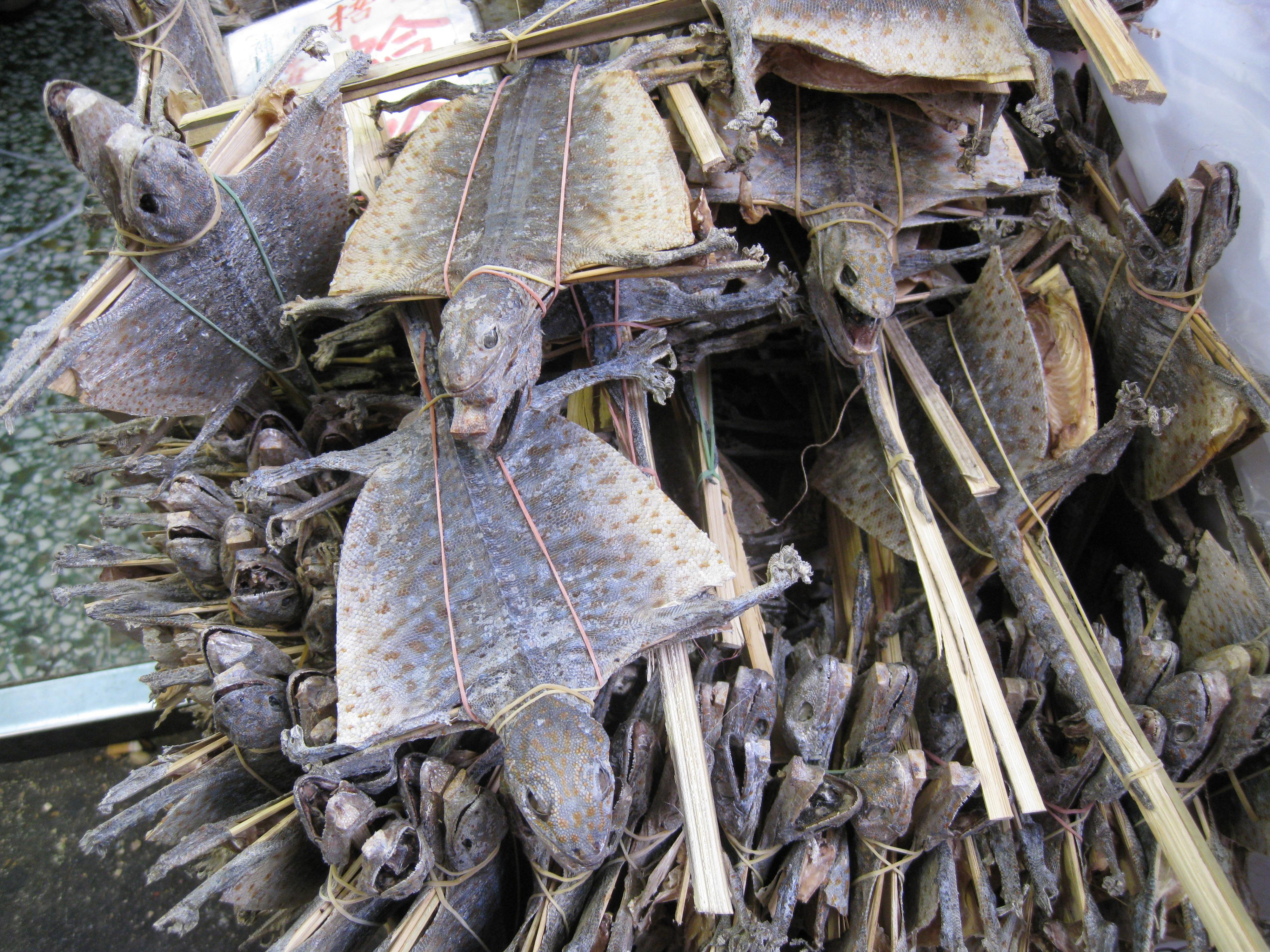 Chinese medicine 蛤蚧 - Dried Tokay gecko (Gekko gecko) in Hongkong.